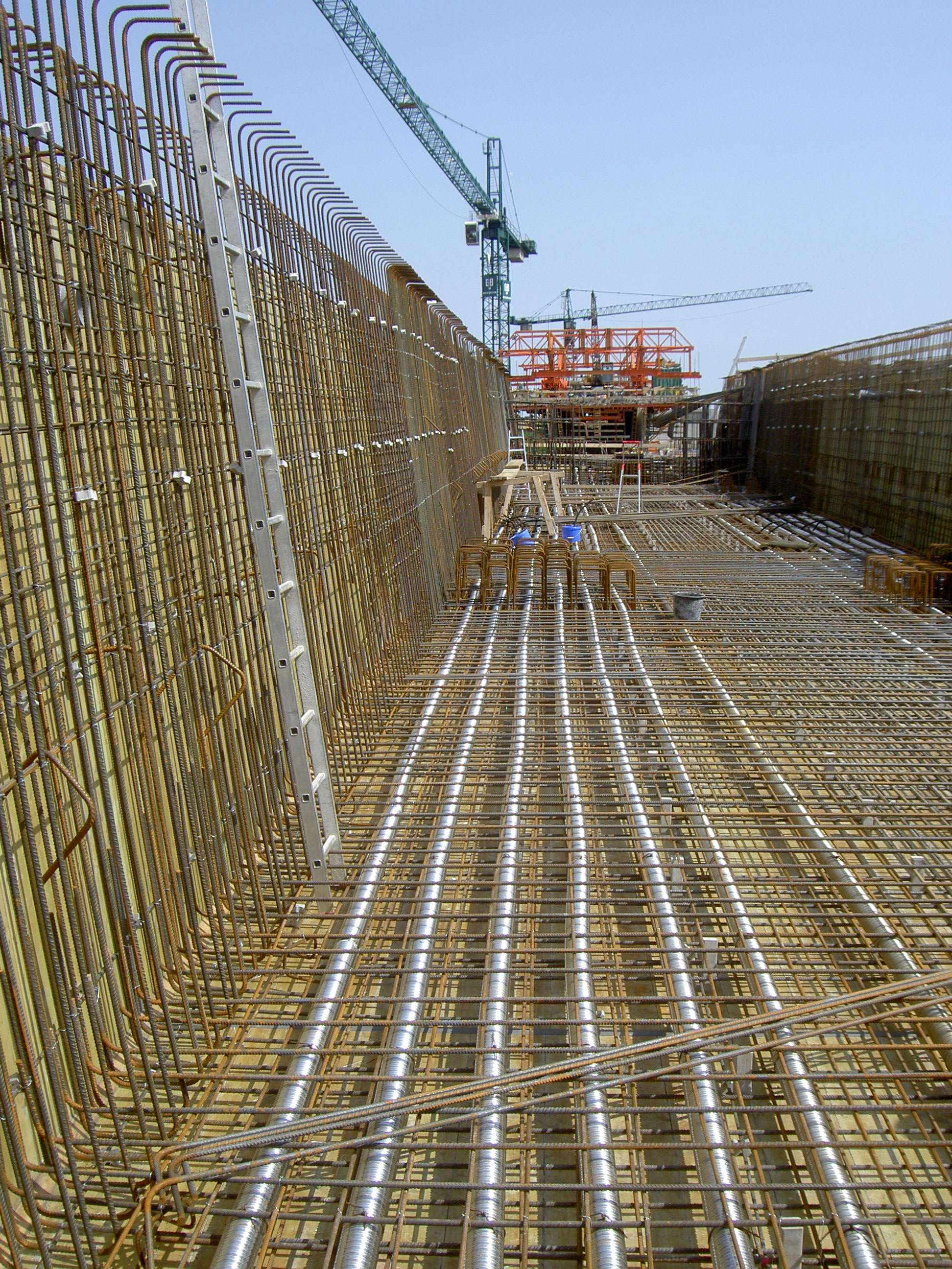 Reinforcement of Weidatalbridge